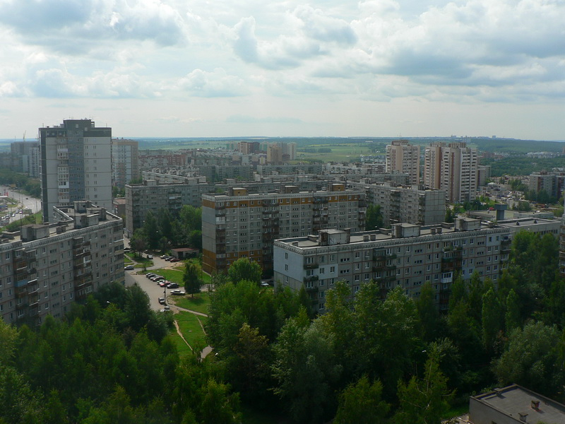 The skyview of Verkhniye Pechory in Nizhniy Novgorod